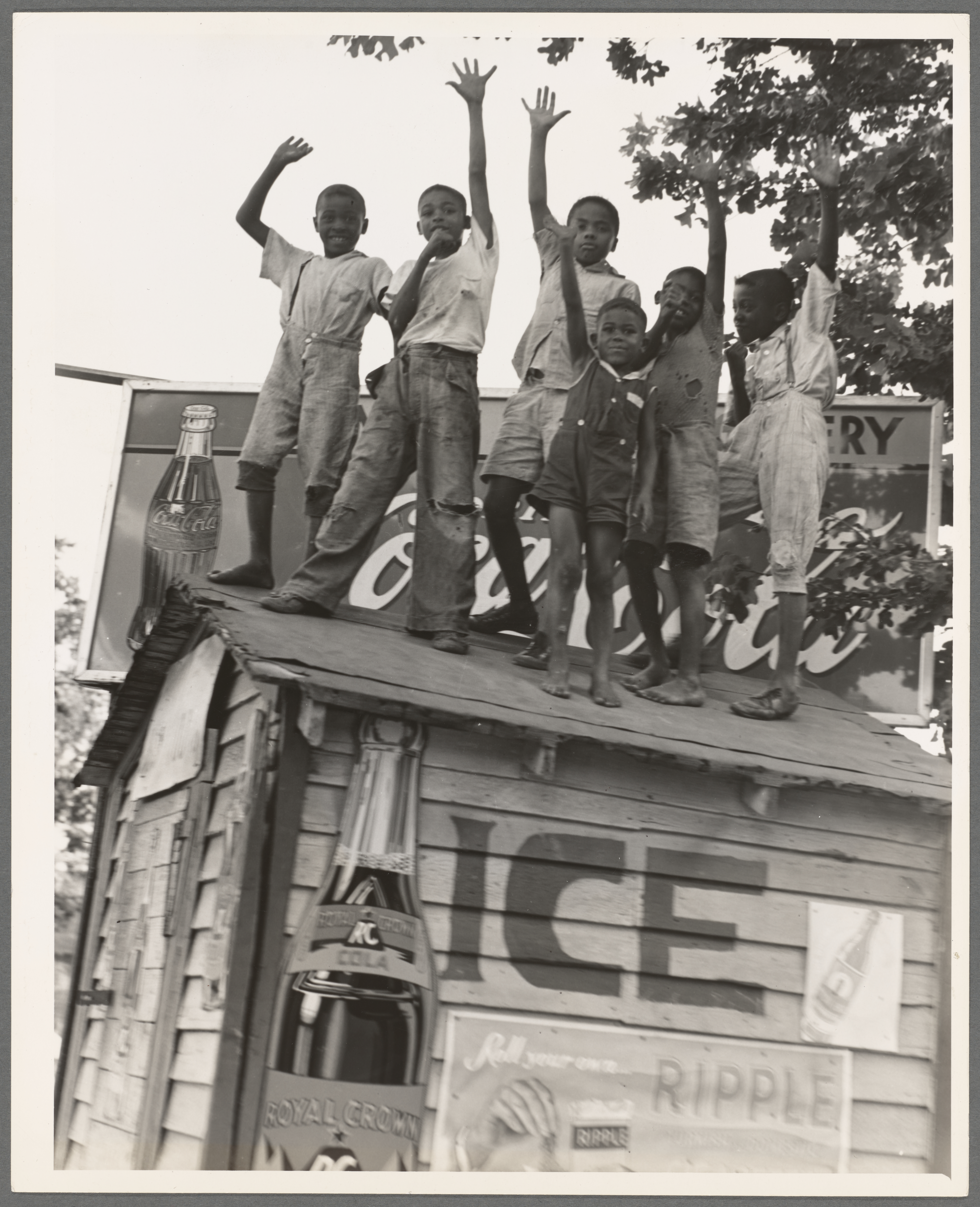 TMS ID: 23811 TMS Object Number: 018259-C Universal Unique Identifier (UUID): 4130c340-8d02-0136-5e78-139ee5b1ca68